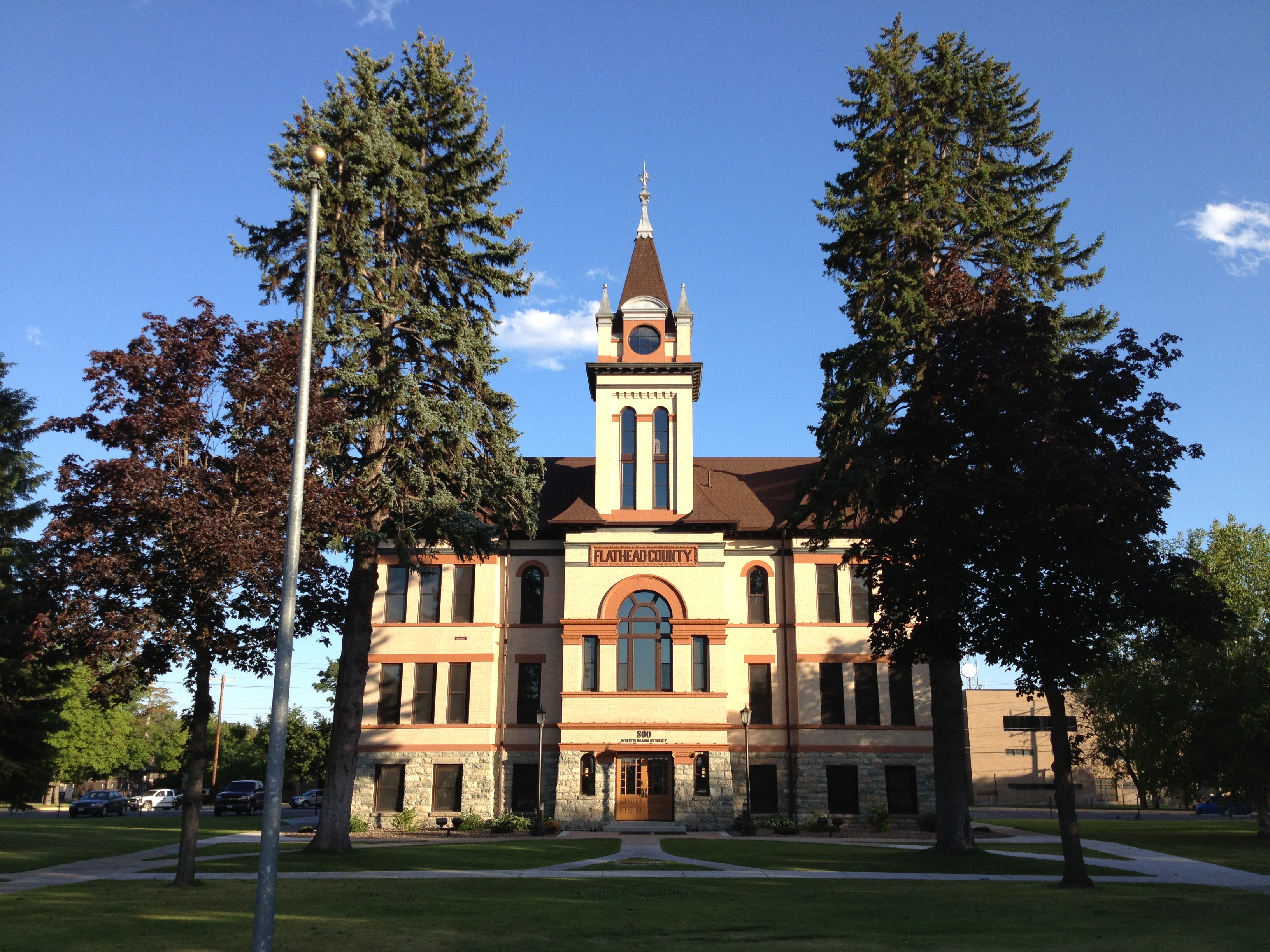 Flathead County Courthouse, Kalispell, Montana, July 19, 2013.